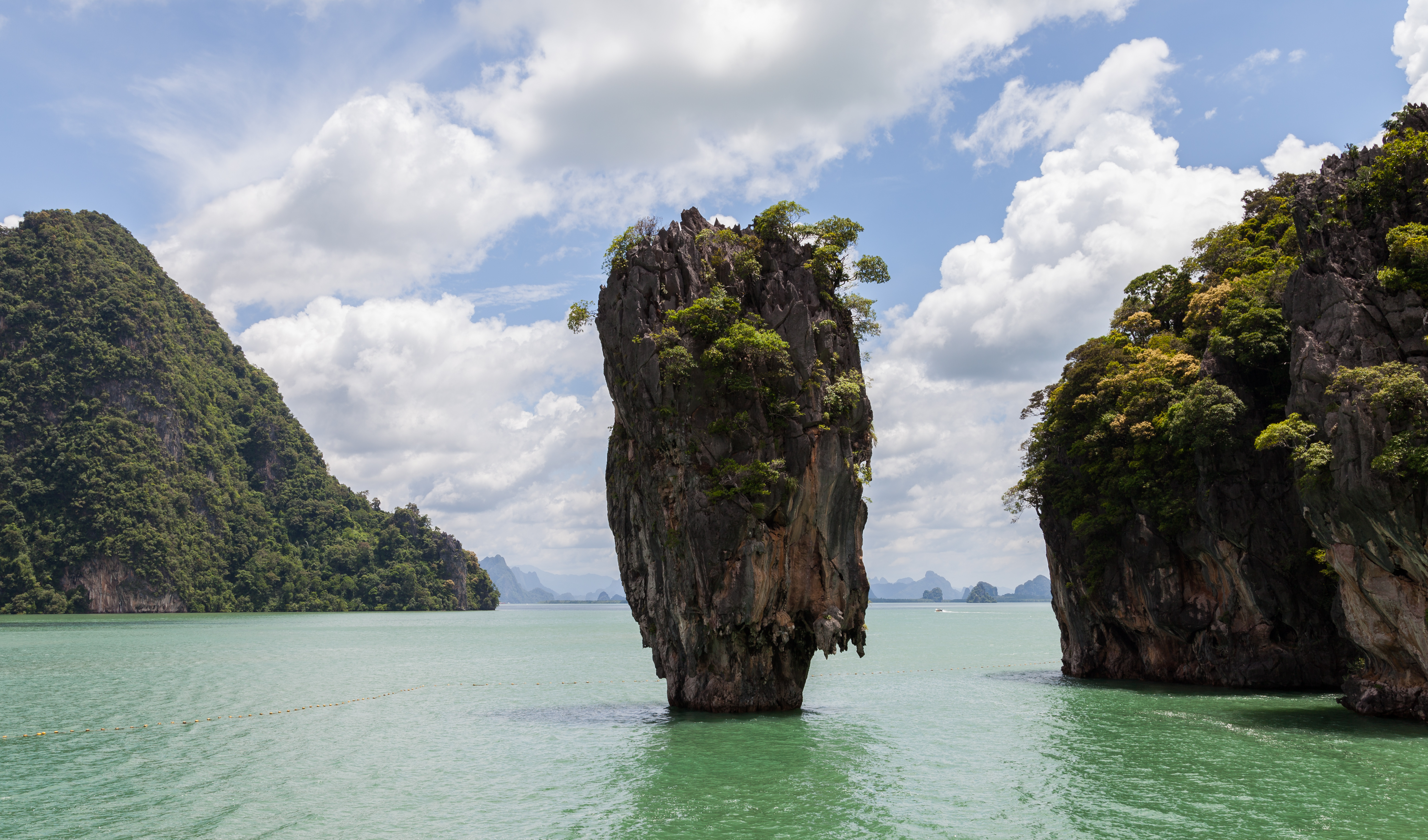 Tapu Island, Phuket, Thailand